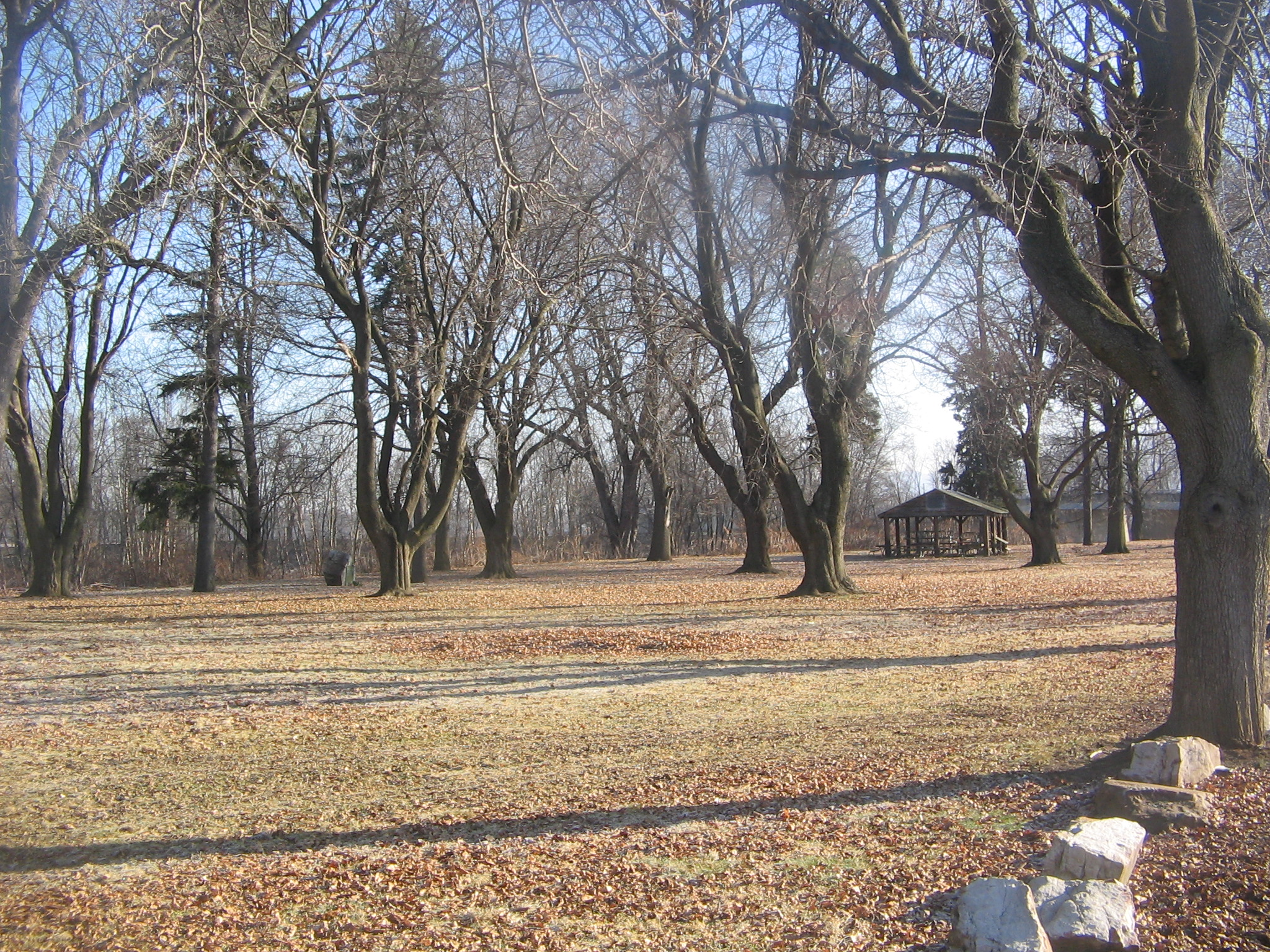 Memorial Park Site in Lock Haven, Pennsylvania in the USA. Listed on the National Register of Historic Places.